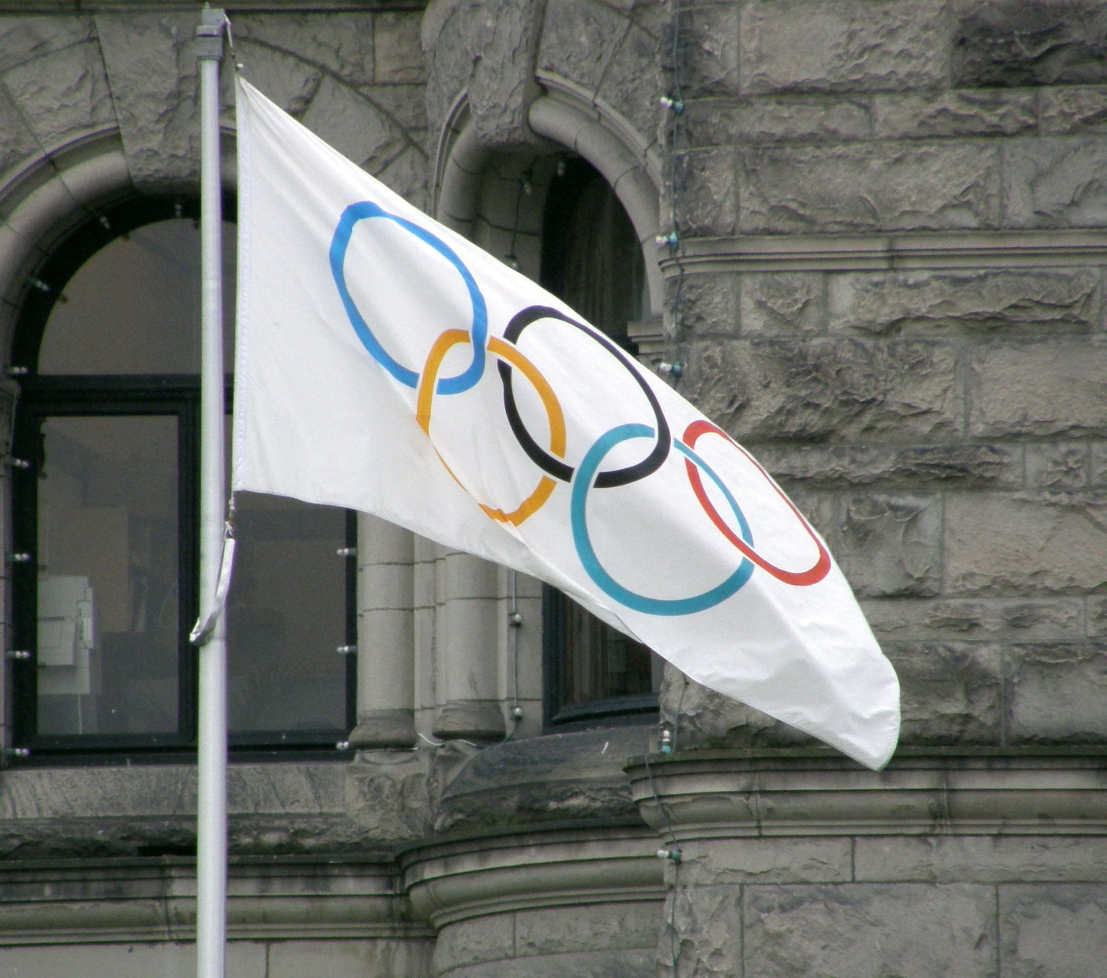 The Olympic Flag flying in Victoria, British Columbia, Canada, outside the provincial legislature of British Columbia, in recognition of Vancouver's hosting of the 2010 Winter Olympic Games.